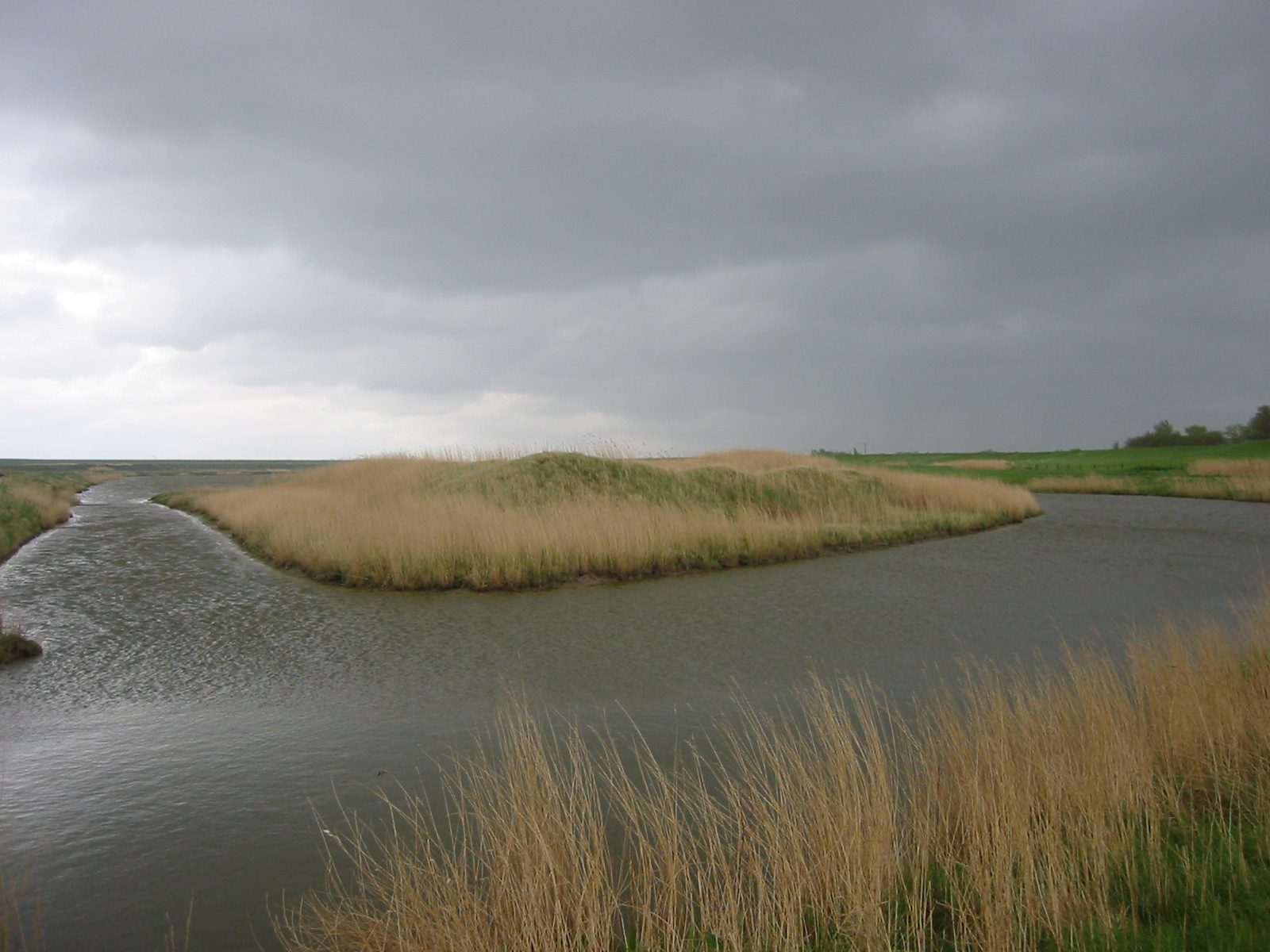 Greetsiel, Germany. Taken on a cold, wet and windy day.